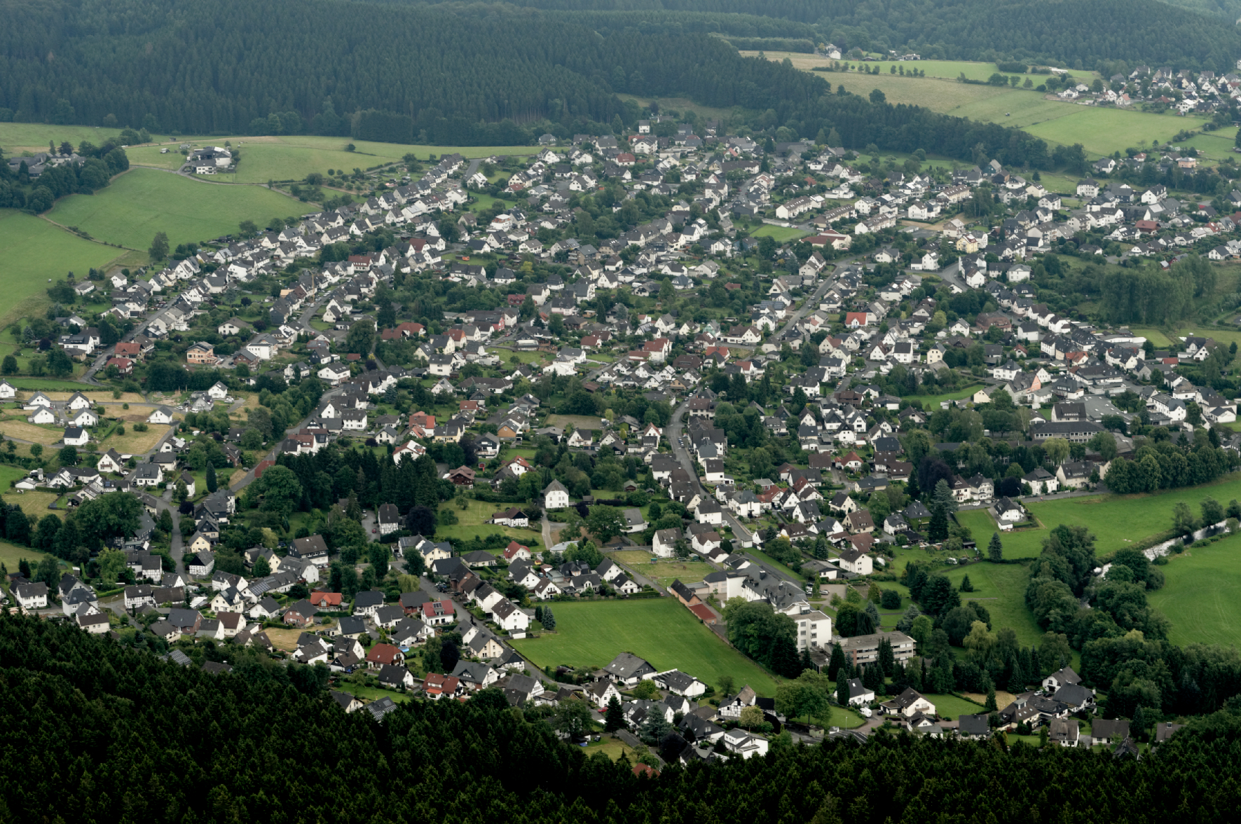 Arnsberg-Oeventrop: Teilort Glösingen (Fotoflug Sauerland Nord) The making of this document was supported by the Community-Budget of Wikimedia Germany.